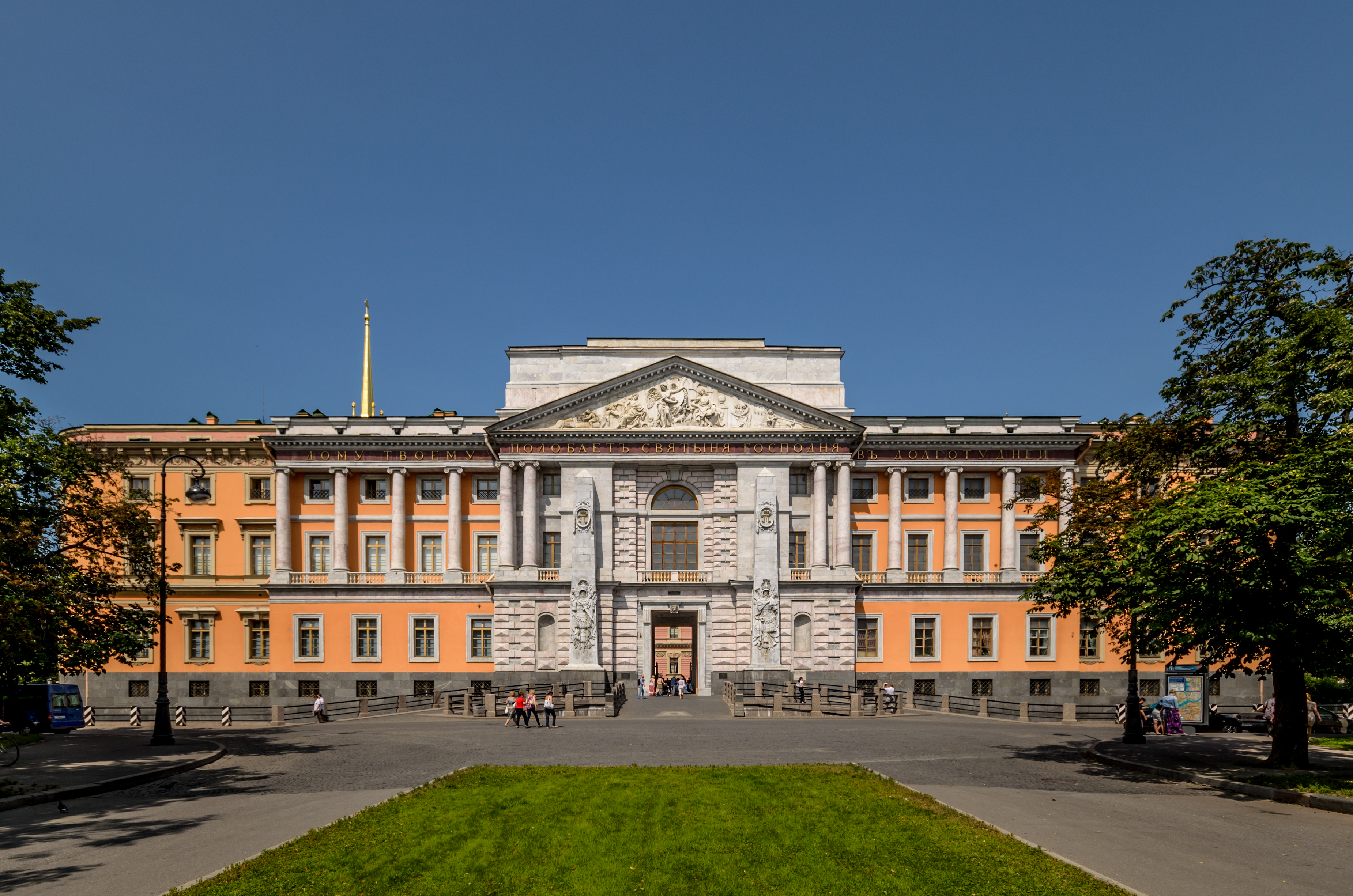 Saint Michael's Castle in Saint Petersburg (front facade)